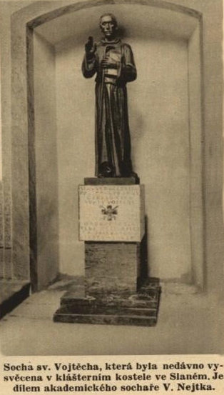 St. Adalbert (Vojtěch), statue of Václav Nejtek, 1938, Slaný, Czech Republic